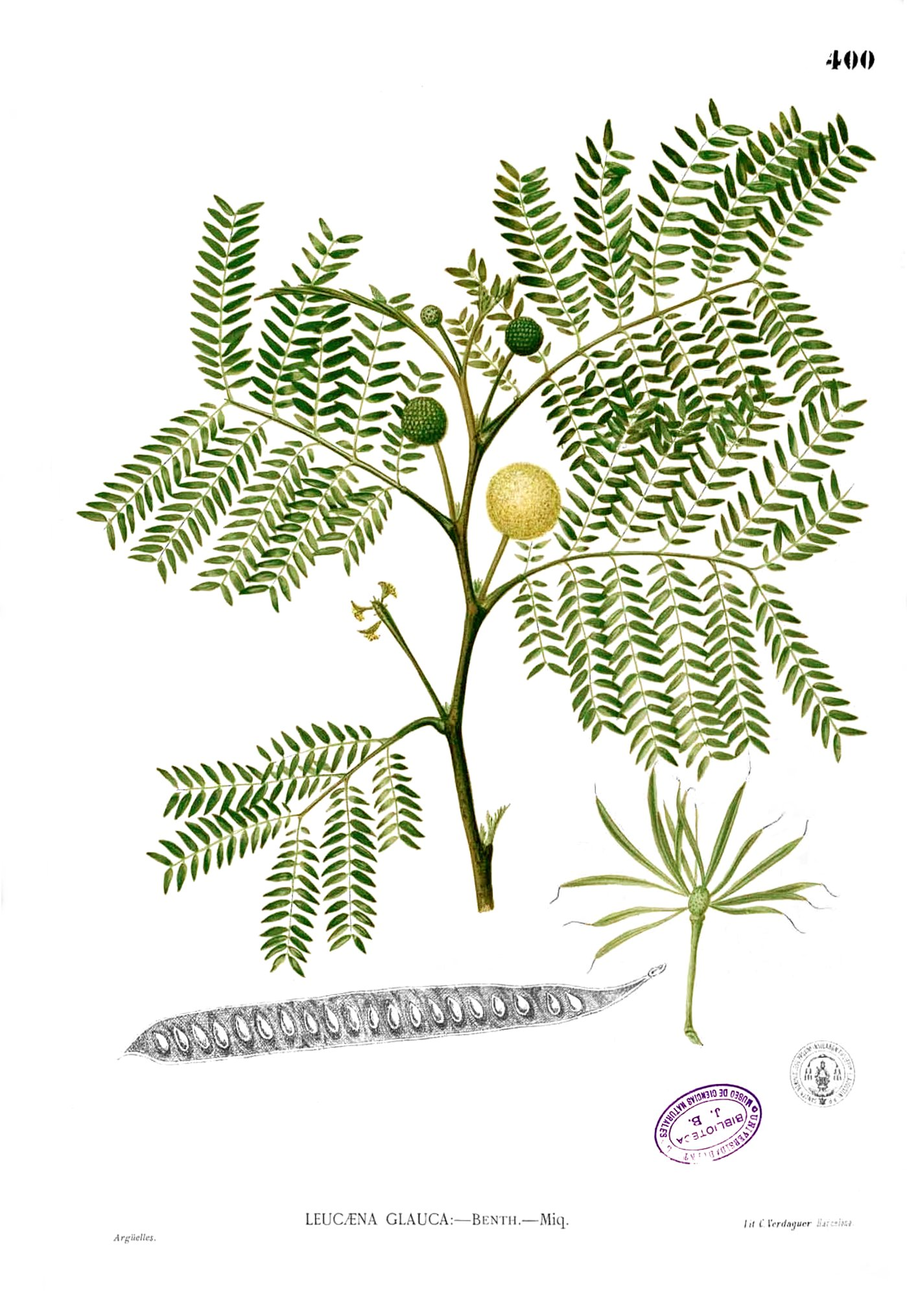 Plate from book